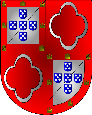 Arms of the Portuguese Sousa (of Arronches) family, Dukes of Palmela. Made by JSobral